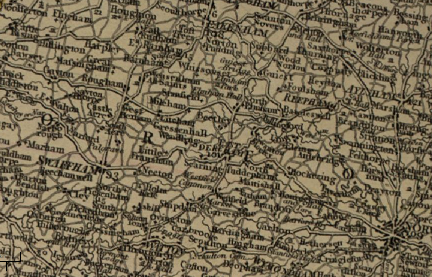 Map of Beetley from 1806.